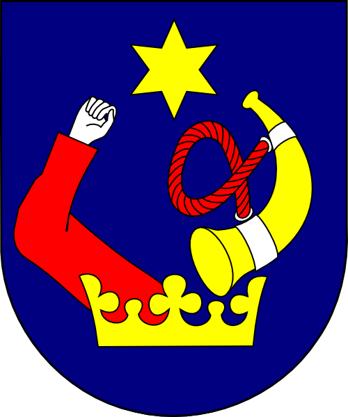 Coat of arms (shield only) of Pál Szmrecsányi, bishop of Spiš, Slovakia (1891 - 1903), bishop of Oradea Mare, Romania (1903 - 1908)